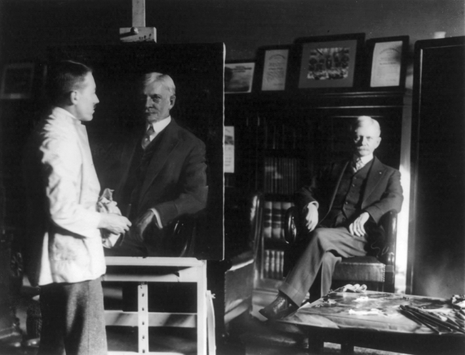 Thomas R. Marshall, Vice President of the United States. Full lgth., seated, facing front; posing for oil painting being done by unknown artist in foreground.